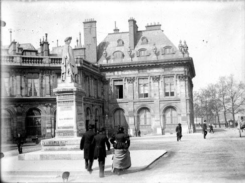 Esplanade devant l'Institut de France, quai de Conti, Paris, avril 1898 Fonds Trutat - Photographie ancienne Cote : TRU C 1735 Localisation : Fonds ancien (S 30) Original non communicable Titre : Esplanade devant l'Institut de France, quai de Conti, Paris, avril 1898 Auteur : Trutat, Eugène Rôle de l’auteur : Photographe Lieu de création : Paris (France) Date de création : 1898 Mesures : : 7 x 9 cm Observations : Note manuscrite de Trutat : " Paris : l'Institut, avril 1898 ". Mot(s)-clé(s) : -- Esplanade -- Place -- Statue -- Socle -- Architecture d'activité artistique -- Homme -- Femme -- Pavement -- Ornement et accessoire d'architecture -- Institut de France (Paris) -- Paris (France) -- Ile-de-France (France) -- 19e siècle, 4e quart -- 17e siècle Médium : Photographies -- Négatifs sur plaque de verre -- Noir et blanc -- Scènes de rue -- Vues d'architecture Bibliothèque de Toulouse. Domaine public